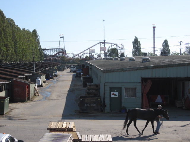 Stables of Hastings_Racecourse, in Vancouver, B.C., Canada.